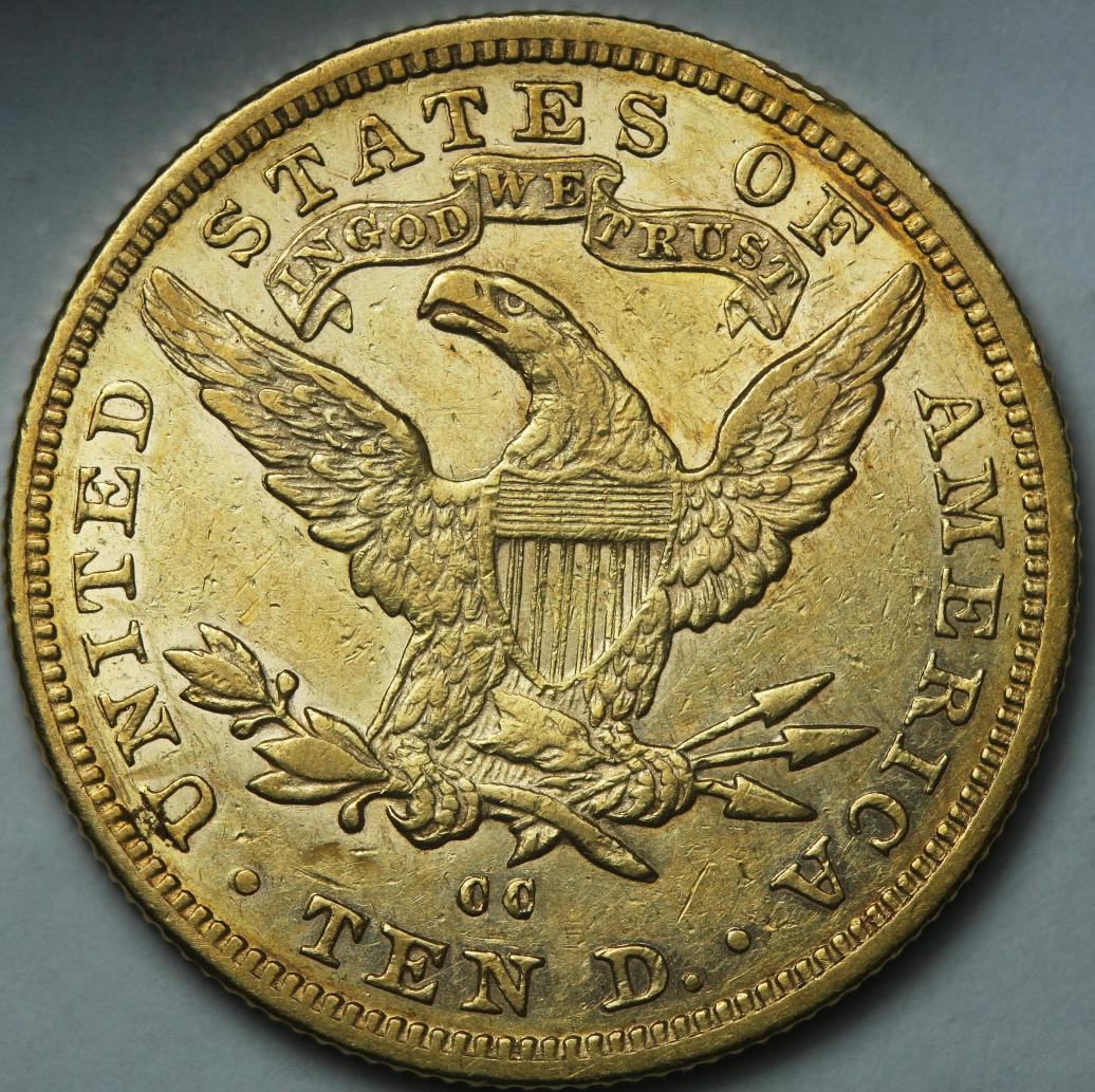 Reverse of an 1883-CC eagle (ten dollar piece)